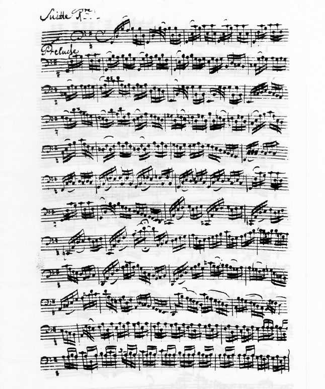 Scan of Anna Magdalena Bach's manuscript for Johann Sebastian Bach's Cello Suite No. 1 in G major, BWV 1007